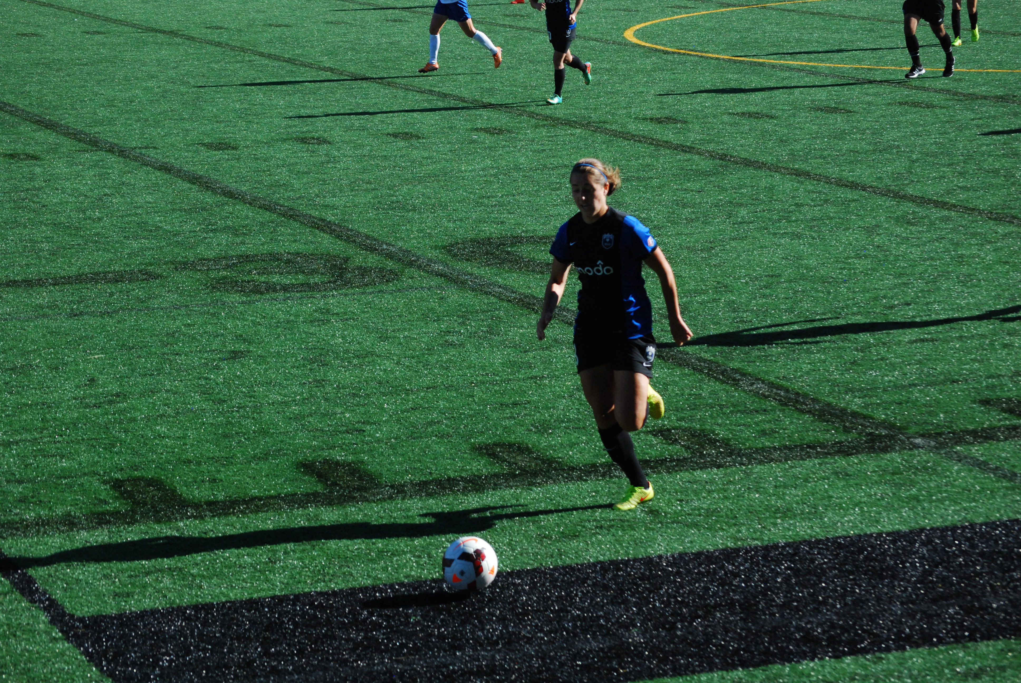 Seattle Reign FC vs Boston Breakers Memorial Stadium, Seattle Center Seattle, WA July 6, 2014